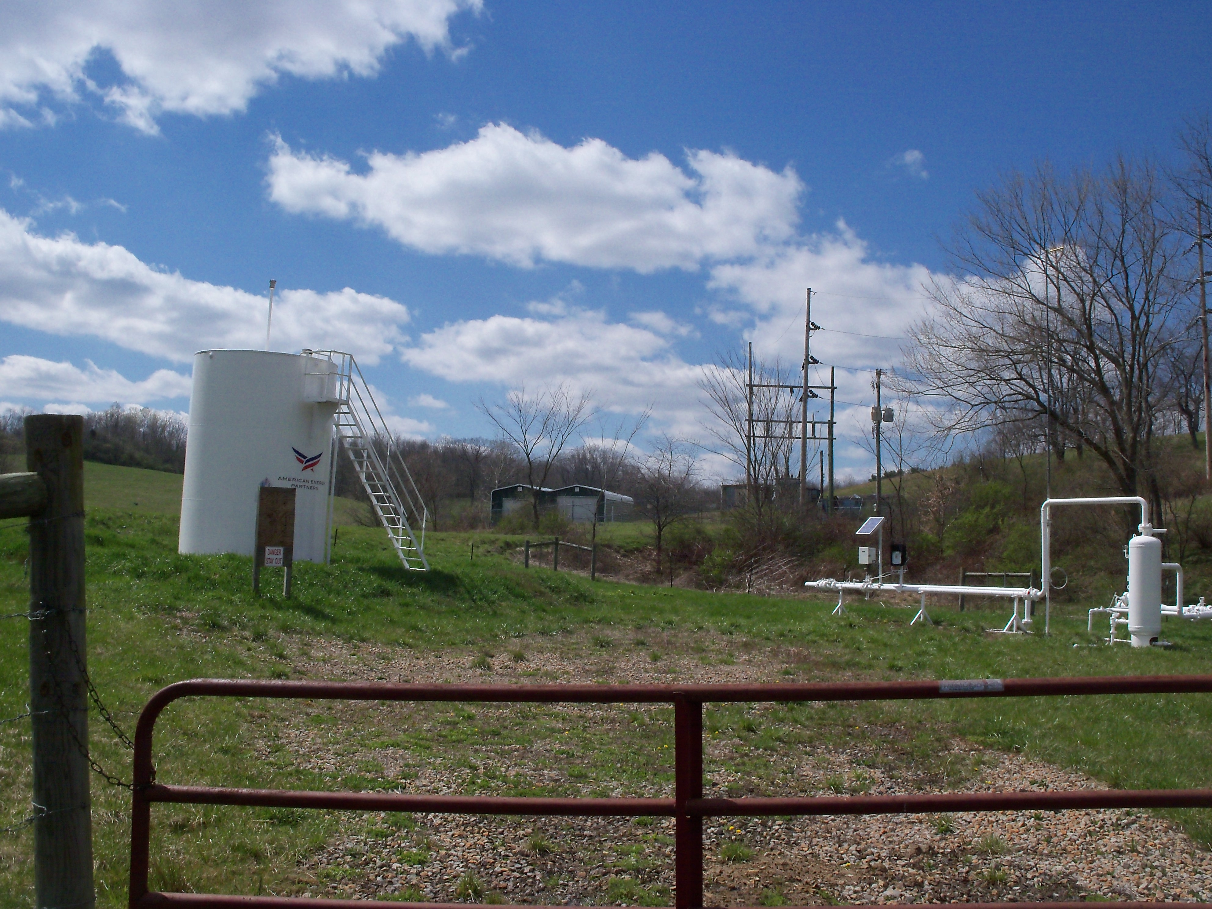 Oilfield development is a common sight in Harrison County, Ohio, part of the Utica Shale oilfield. This tank and plumbing is near Hopedale, Ohio